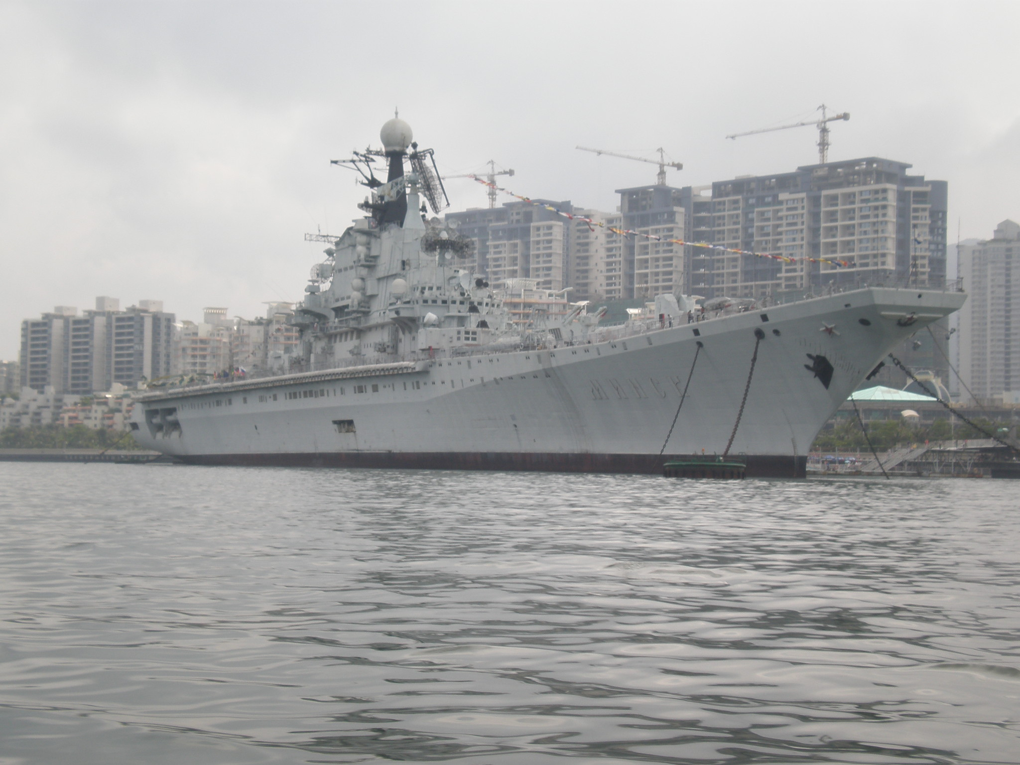 The starboard side of the former Soviet aircraft carrier Minsk moored in Shenzhen, China, as seen from a motorboat that can be rented for a 5 minute cruise around the starboard and bow of the Minsk. The Minsk is the centerpiece of the Minsk World military theme park.